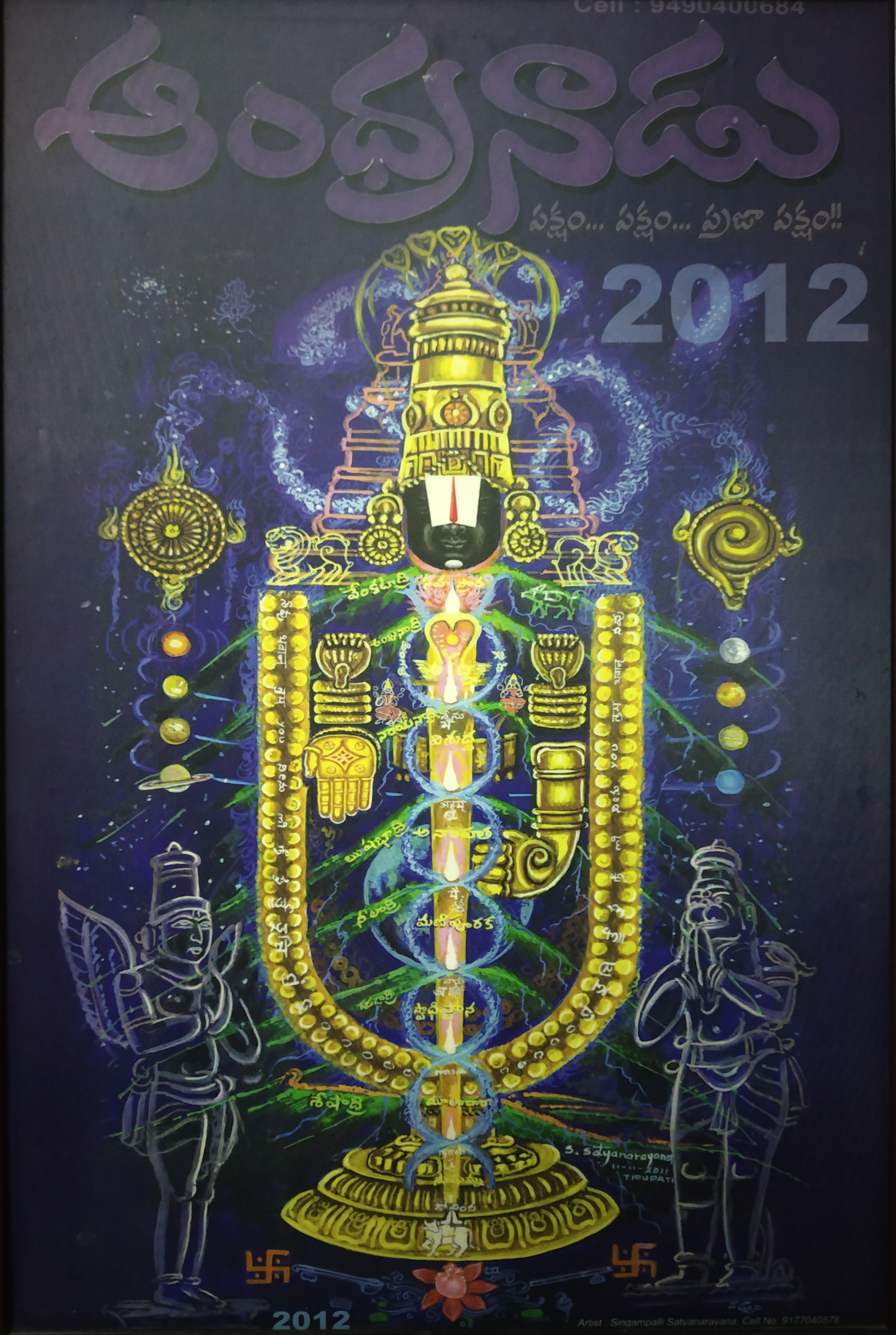 Twamevaham by Satyanarayana